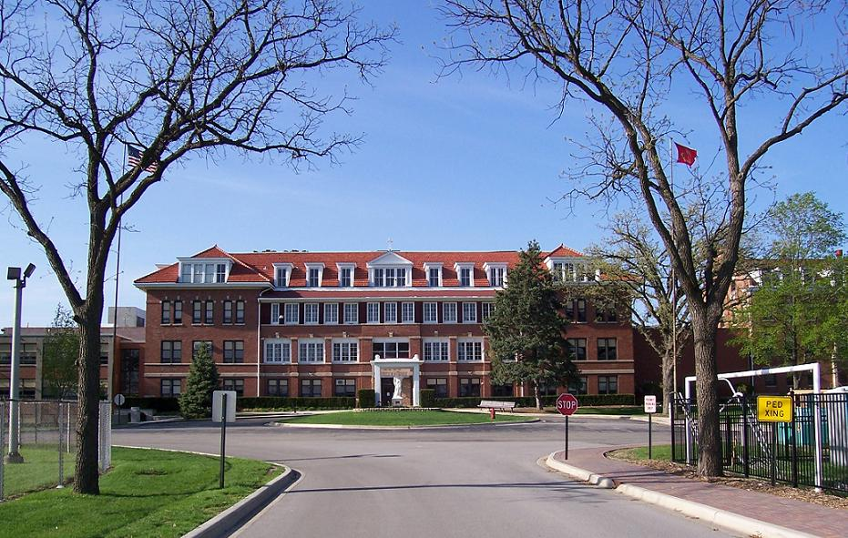 A picture of St. Joseph Hall, one of the many buildings of Benet Academy. The picture was taken from the driveway leading to the school from Maple Avenue.